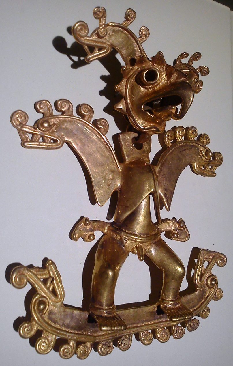 Gold pendant shaped in human form with bird mask, articled in three pieces, resembling Sibö, major Bribri deitie. Such articulated metal pieces are only found in Costa Rica, and are uniqued within the metallurgy of Americas. South Pacific Costa Rica, 700-1550 AC. 14,7 x 12 cm. Museo del Oro Precolombino, San Jose, Costa Rica.